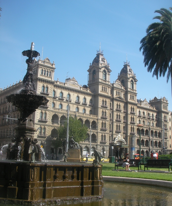 Windsor Hotel in 2010 taken from the Parliament Reserve